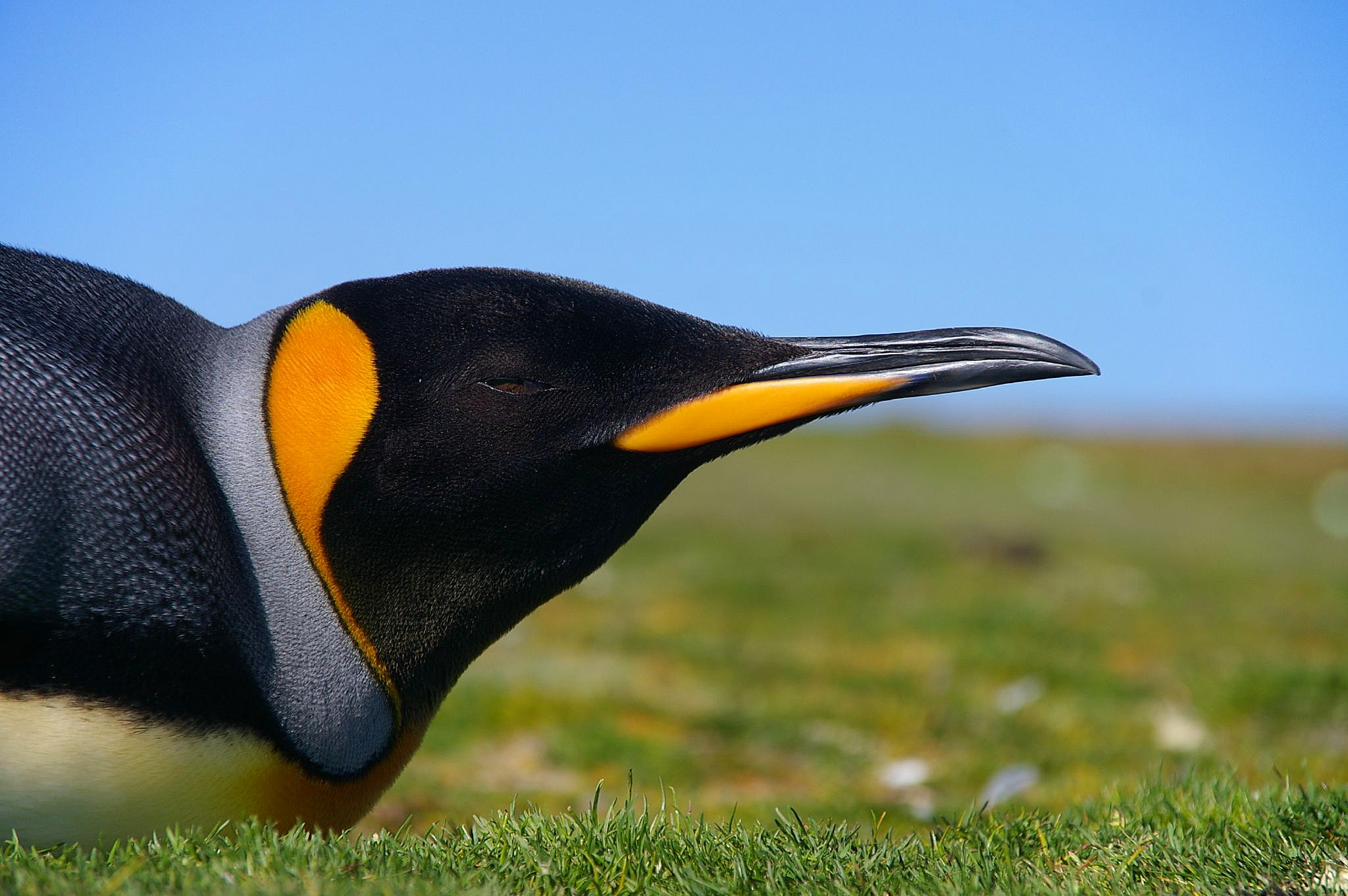 King Penguin (Aptenodytes patagonicus patagonicus), West Falkland.